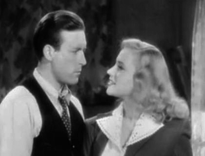 Lawrence Tierney & Anne Jeffreys in Dillinger - trailer (cropped screenshot)